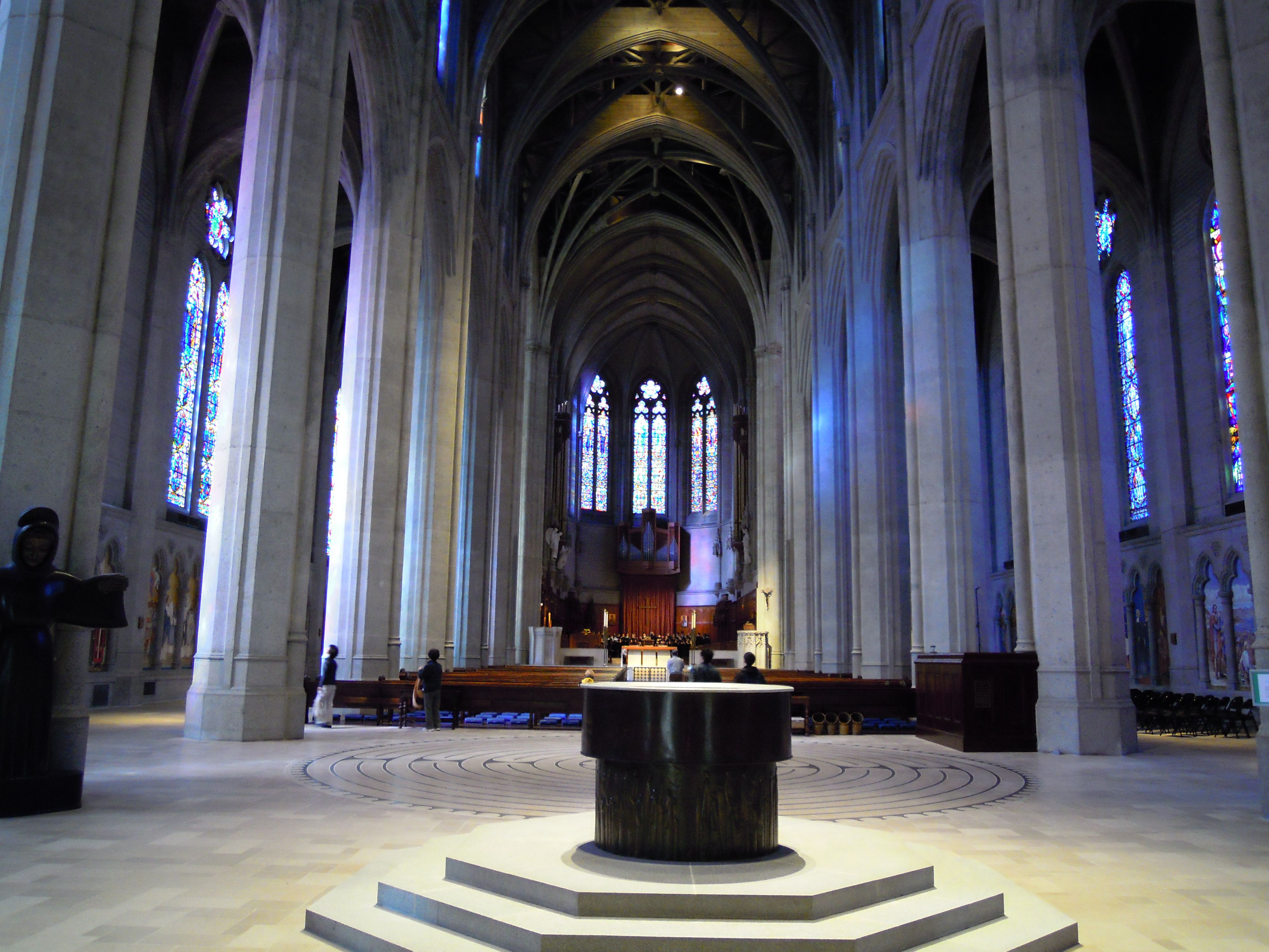 Interior of Grace Cathedral, San Francisco, California, USA